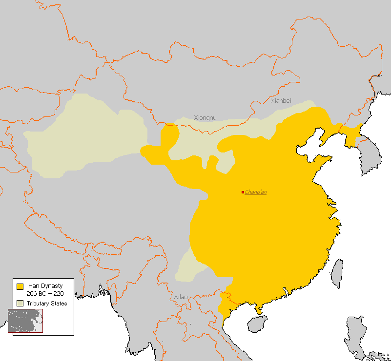 Han Dynasty 206 BC – 220